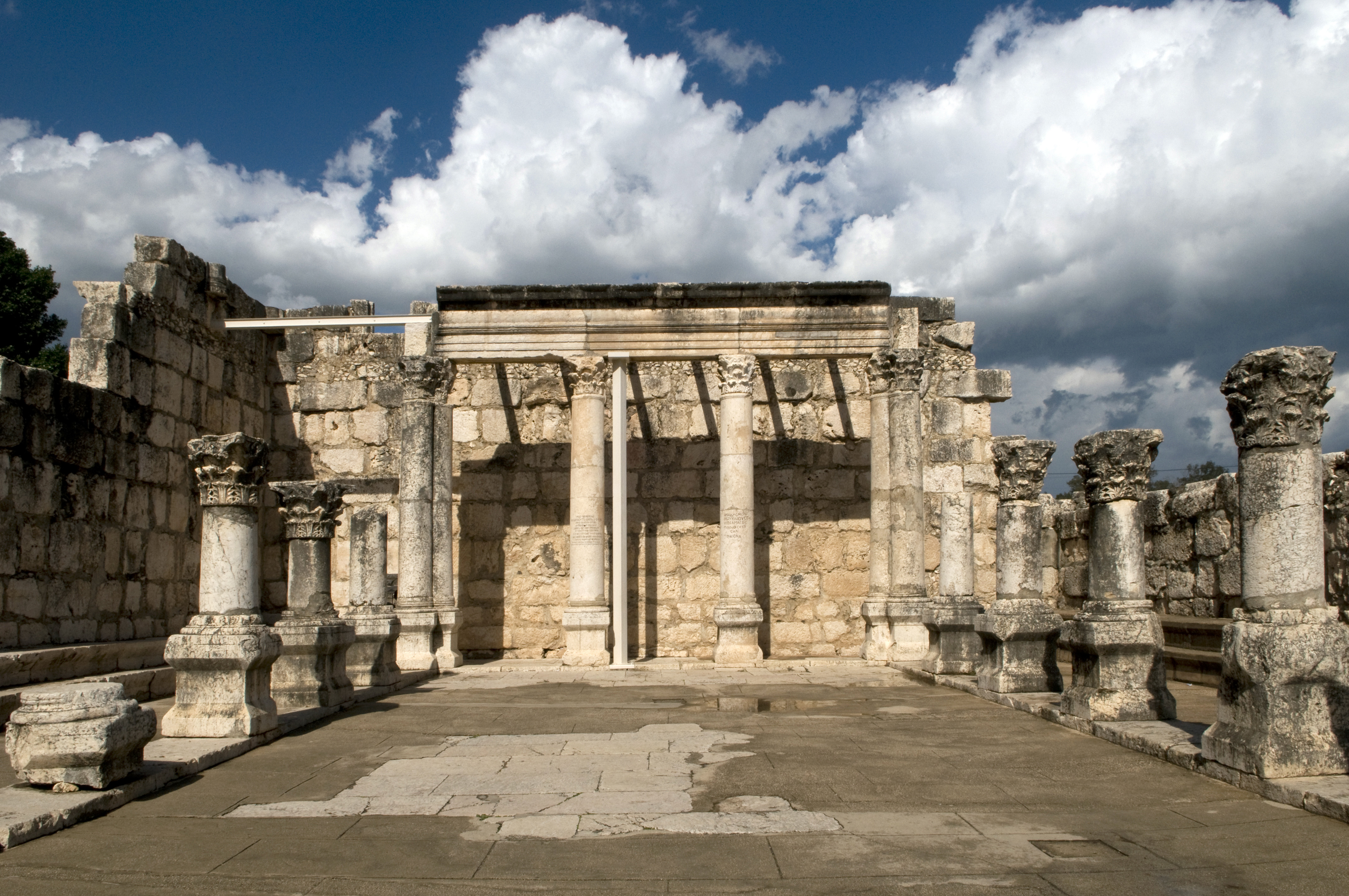 Sites of Christianity in the Galillee - Ruins of the ancient Great Synagogue at Capernaum (or Kfar Nahum) on the shore of the Lake of Galilee, Northern IsraelRomână: Locuri creștine în Galilea: ruinele Marii Sinagogi din Capernaum (Kfar Nahum) pe malul Mării Galilee, nordul Israelului